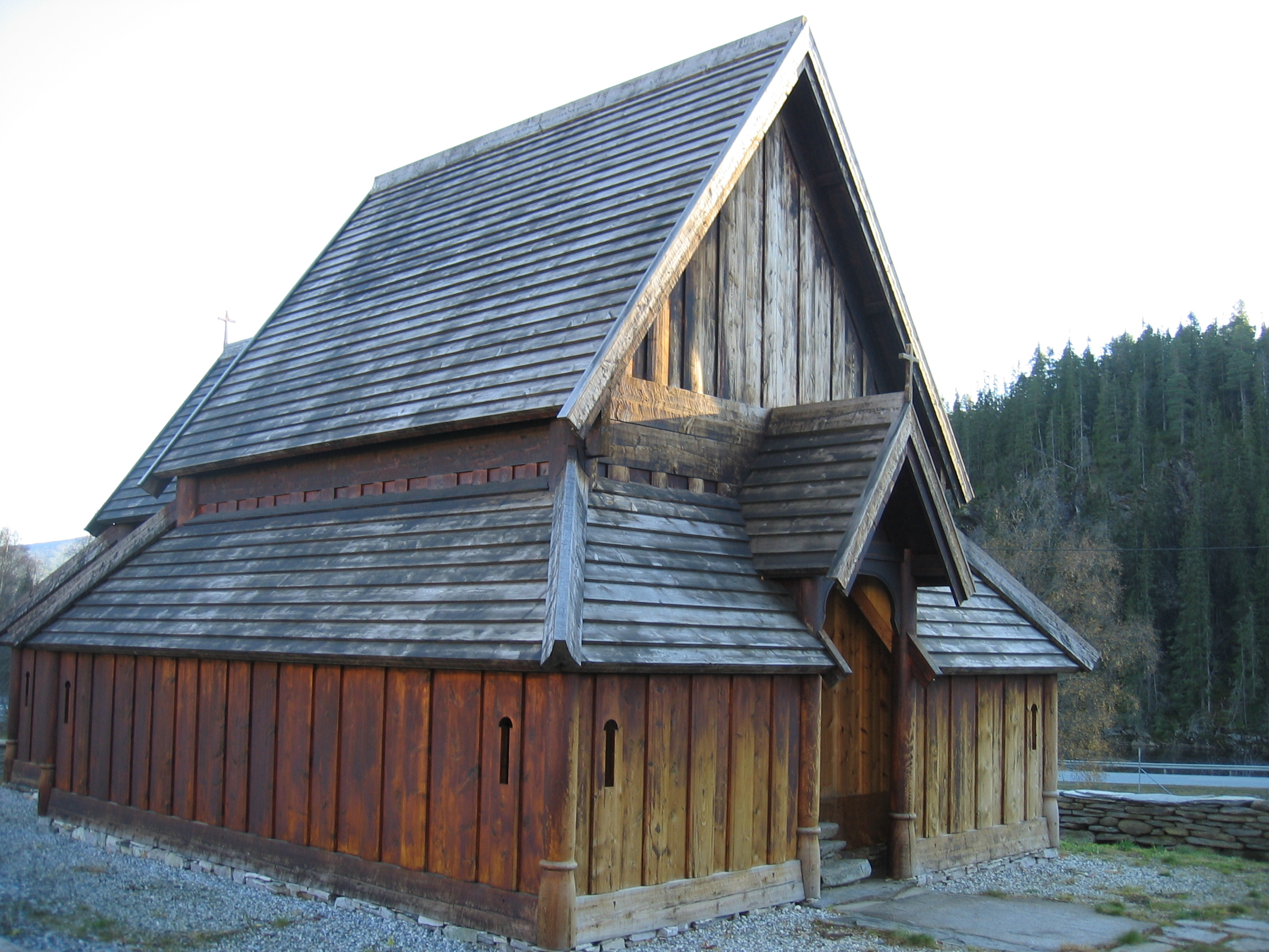 Haltdalen Stave Church, Holtålen, Sør-Trøndelag, Norway. Norwegian: Haltdalen stavkyrkje, Holtålen, Noreg.